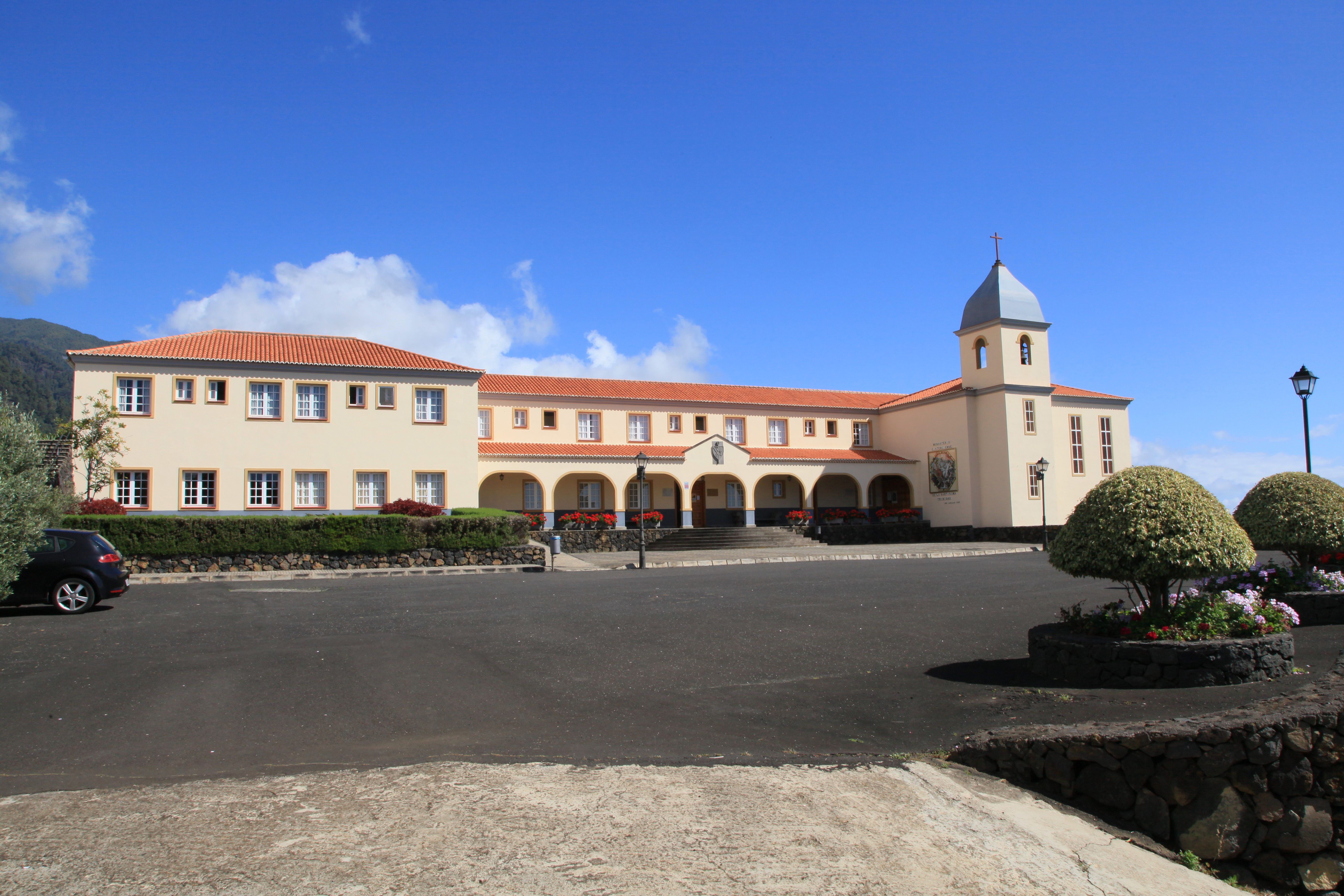 Monasterio Cisterciense de la Santísima Trinidad, Camino La Corsillada in Breña Alta, La Palma, Canary Island, Spain